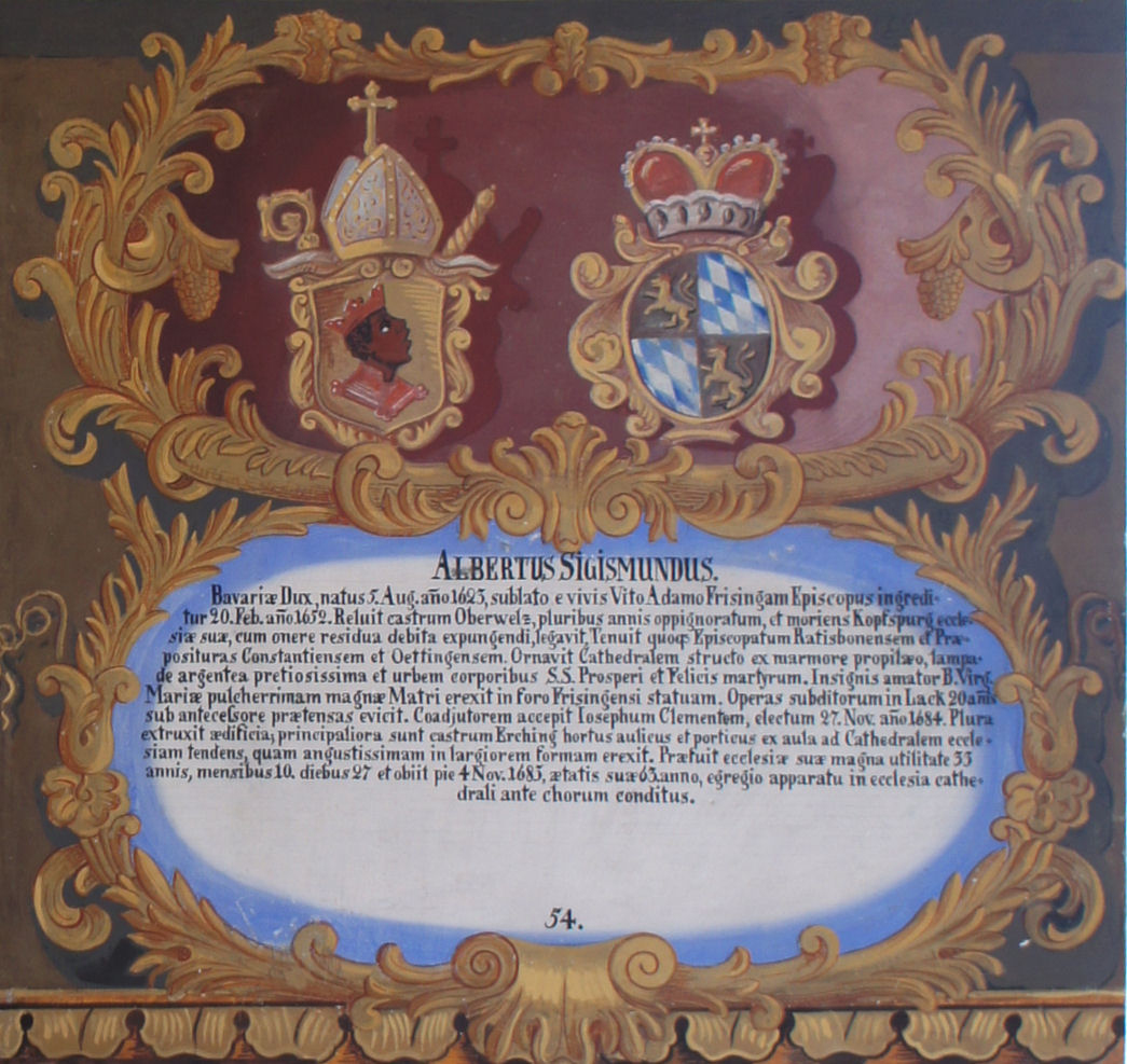 Wappentafel von Albrecht Sigismund von Bayern, Fürstbischof von Freising, im Fürstengang zwischen Fürstbischöflicher Residenz und Freisinger Dom. Links das geistliche, rechts das persönliche Wappen, darunter ein lateinischer Text mit kurzer Biographie.